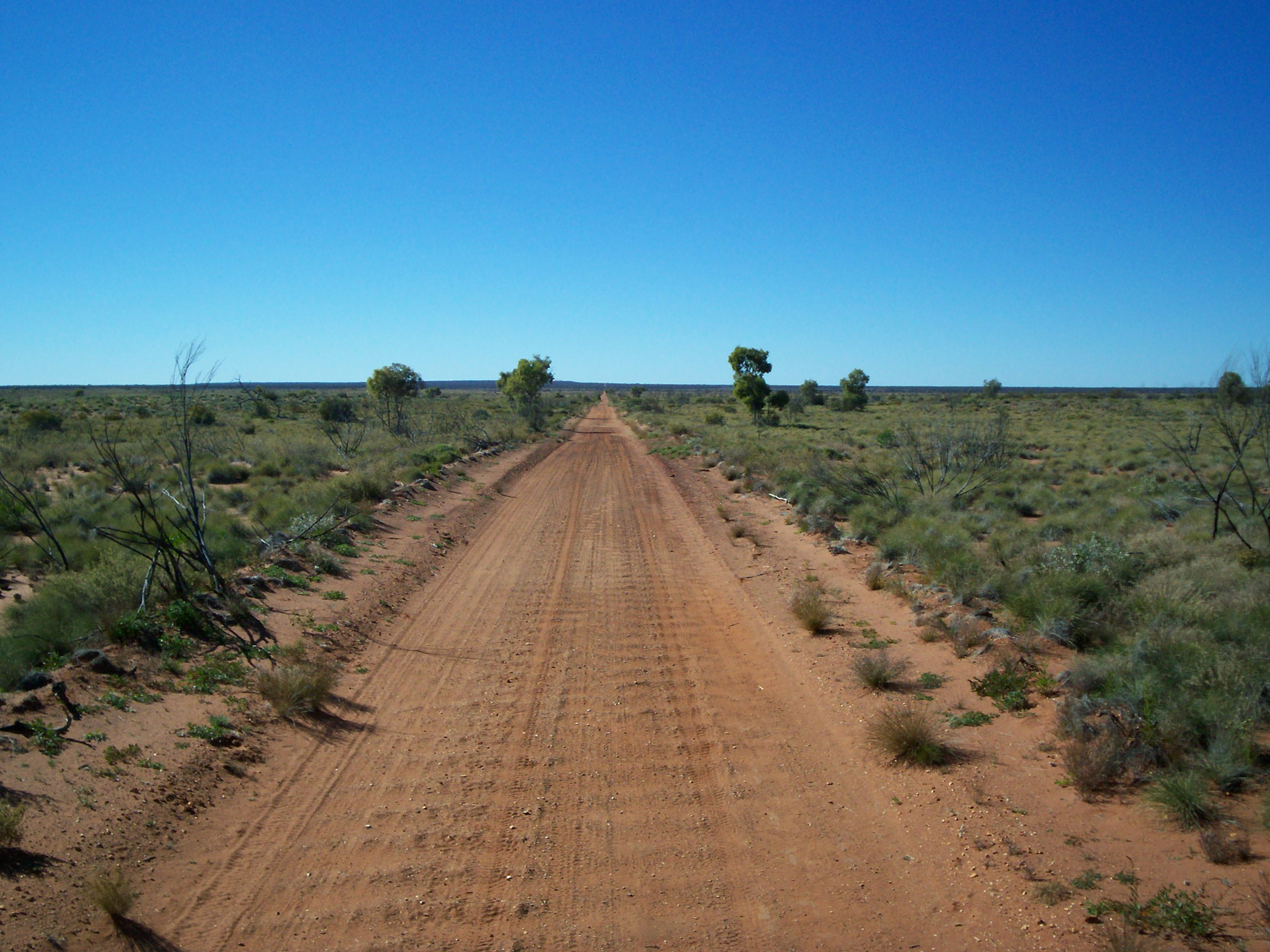 Photo of Gunbarrel Hwy taken by Gazjo on 26 June 2007